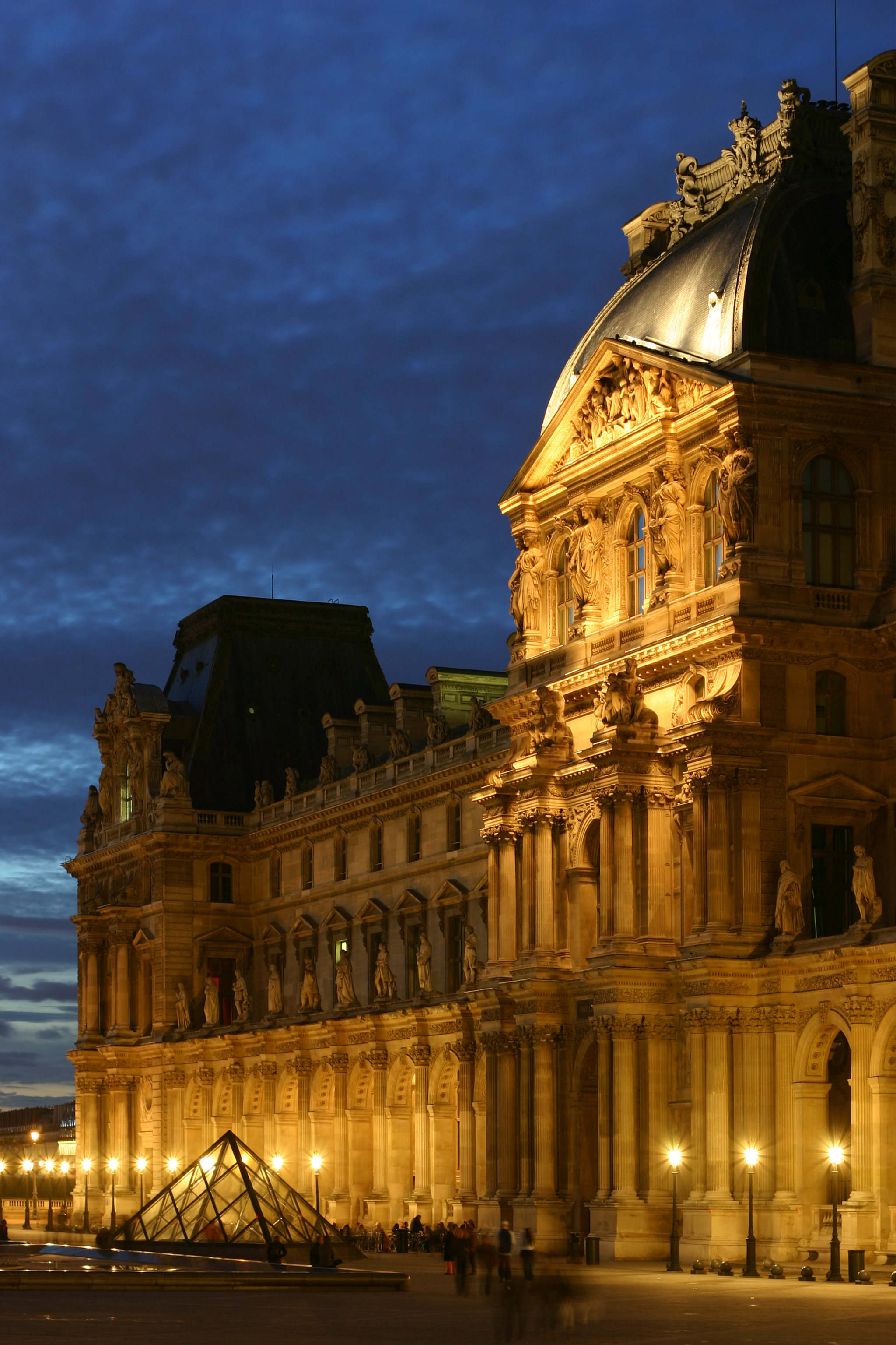 Richelieu wing of the Louvre museum